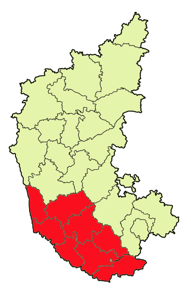 Locator map of Mysuru division, Karnataka, India